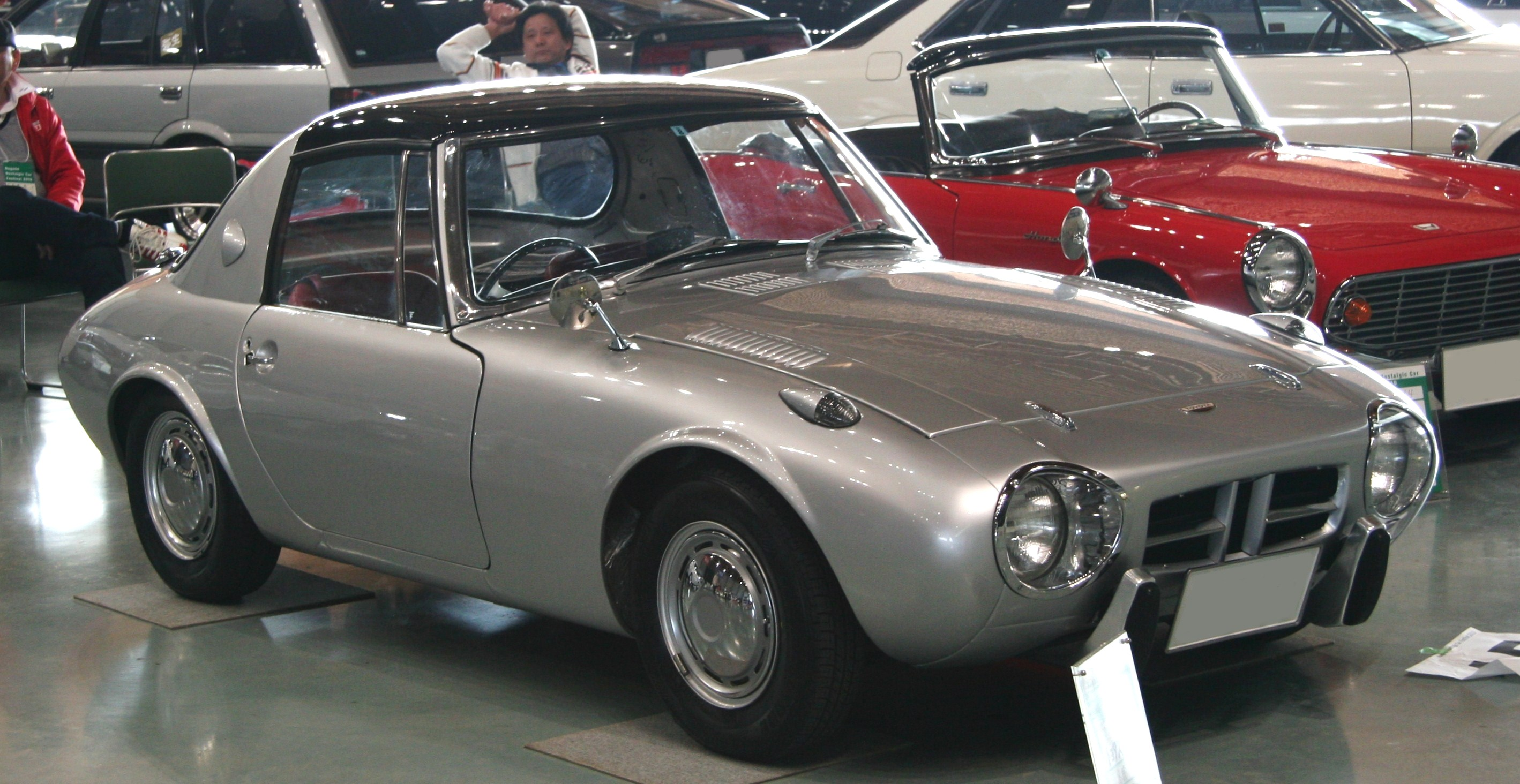 Toyota Sports 800